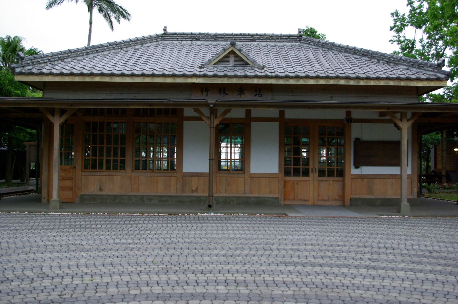 Taipingshan Forest Railway Chu-lin Station